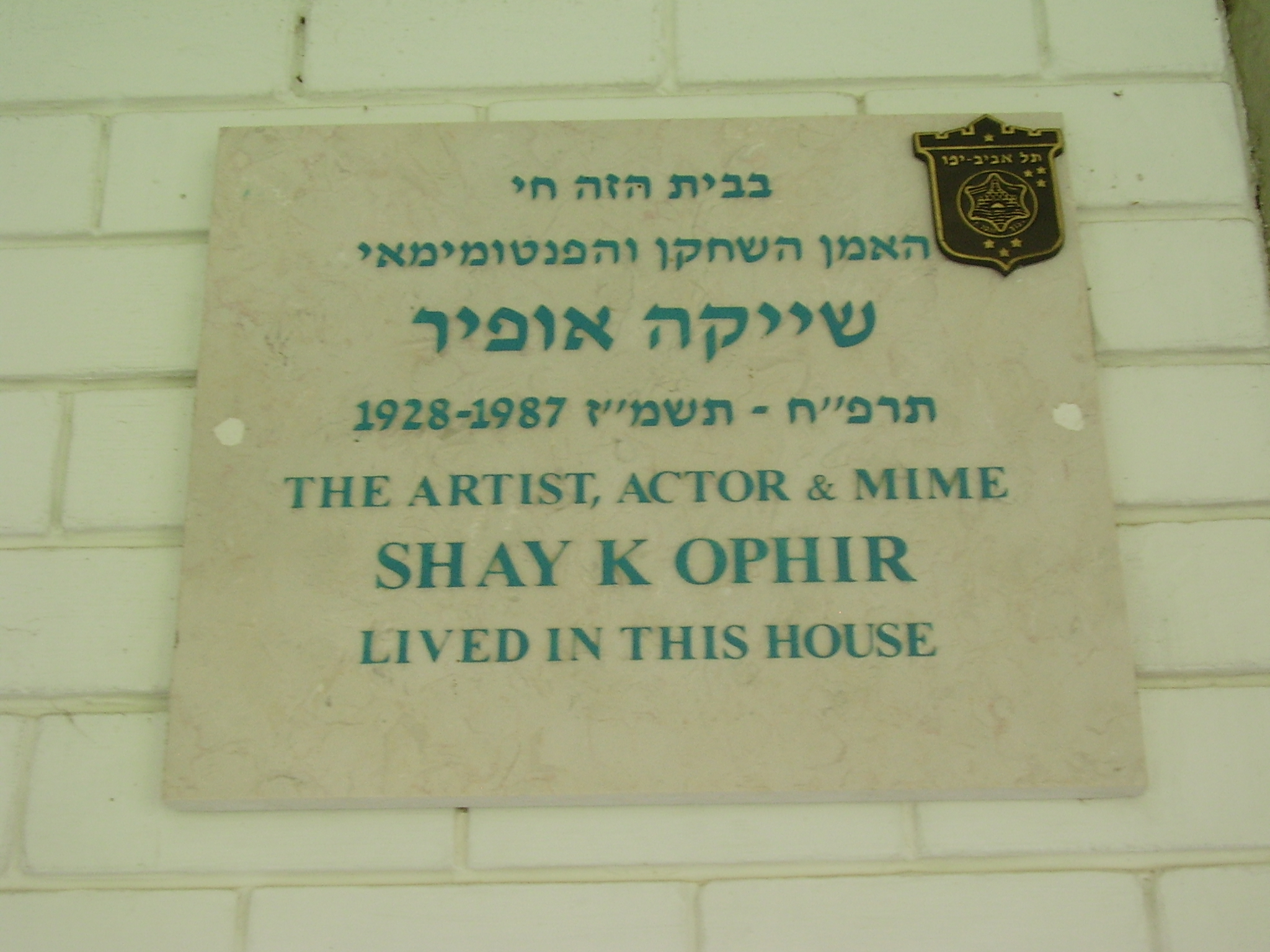 memorial plaque to shaike ophir (shay k ophir) in tel aviv לוחית זיכרון לשייקה אופיר ברח' בארי 46 בתל אביב